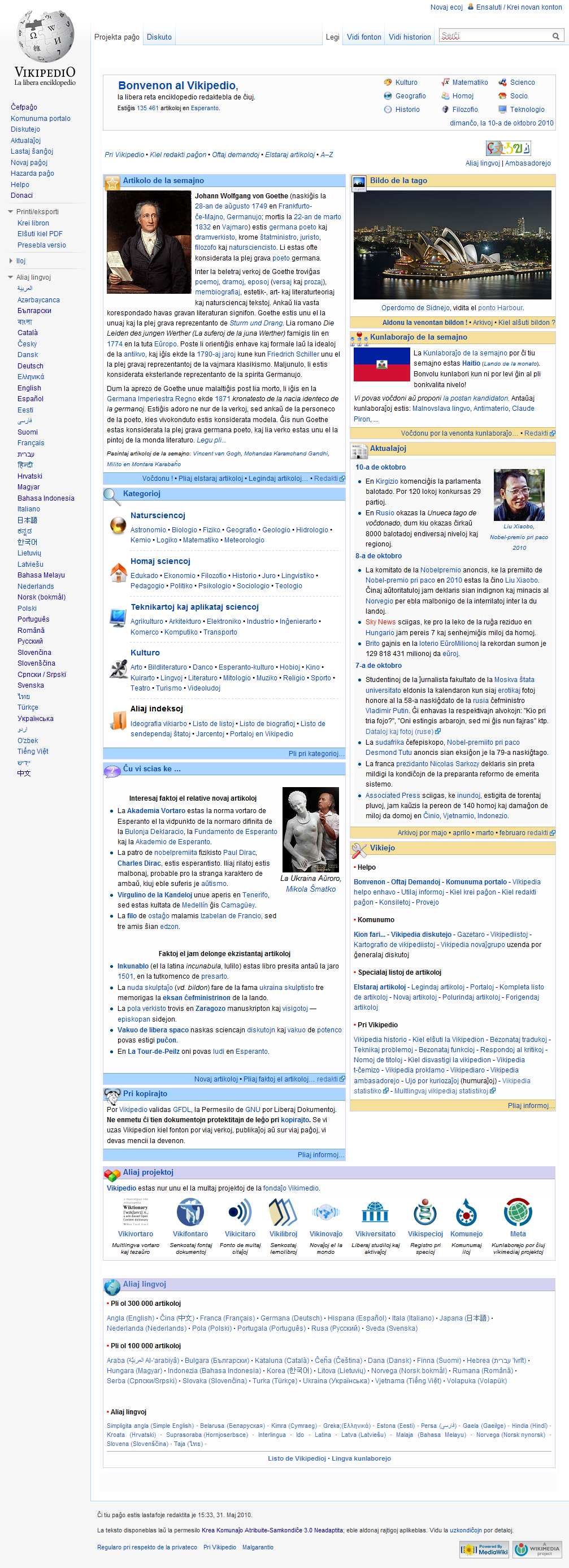 Screenshot of the Esperanto Wikipedia home page